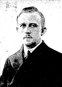 Szymon Federbusz